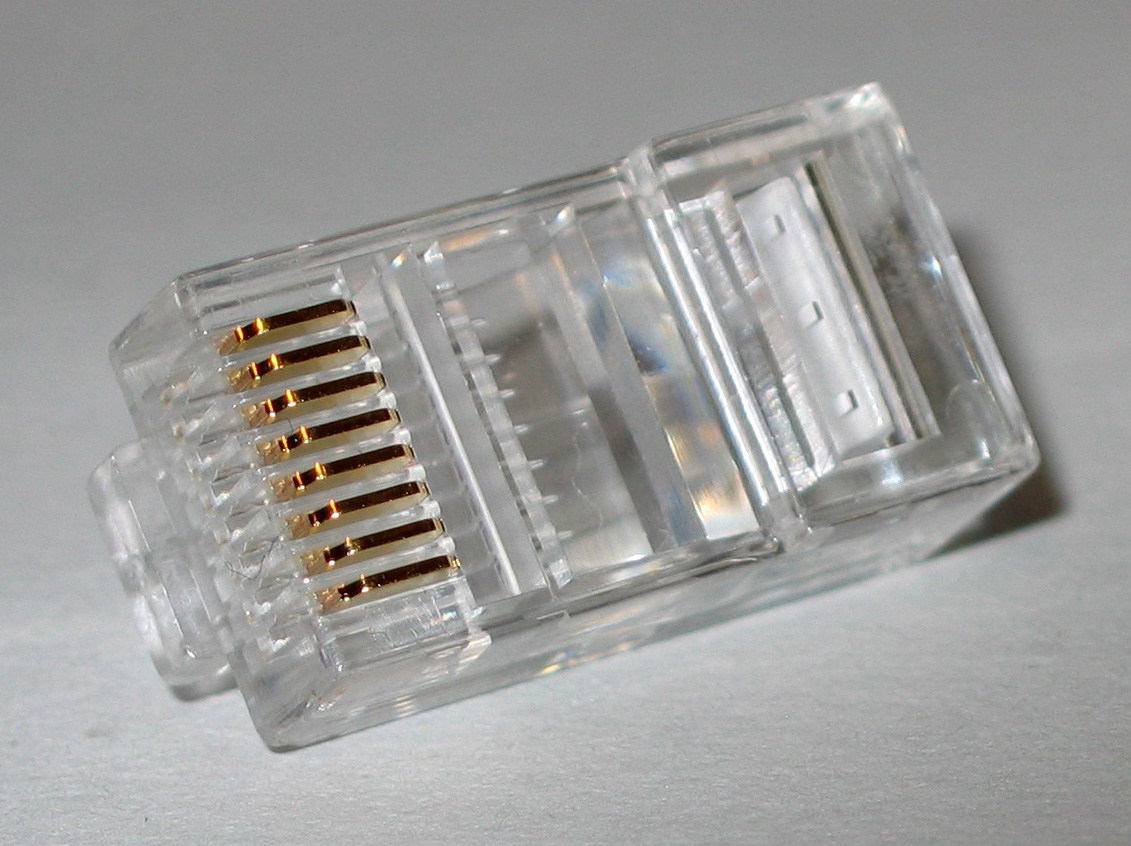 Close-up photo of an uncrimped, transparent RJ-45 plug.